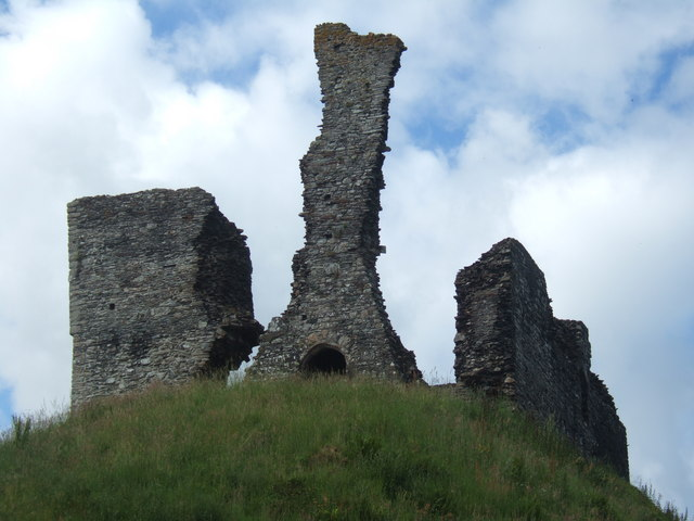 Okehampton Castle Motte, 2009 A 'close-up' view of the ruined building atop the motte inside Okehampton Castle. Keywords: okehampton, castle, motte, ruin